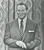 Screenshot of Art Linkletter from a public domain episode of The Jack Benny Show. I got it from